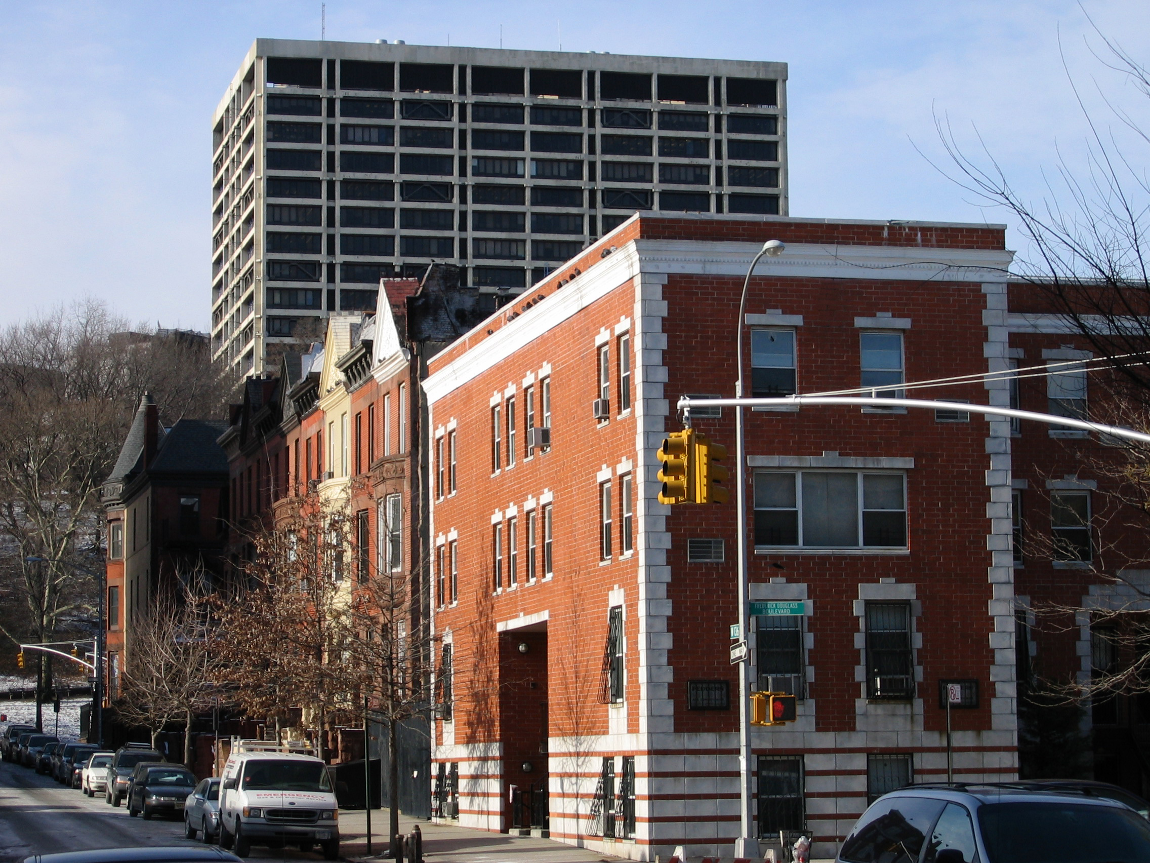 W 136 Street and Frederick Douglass Boulevard in Harlem.